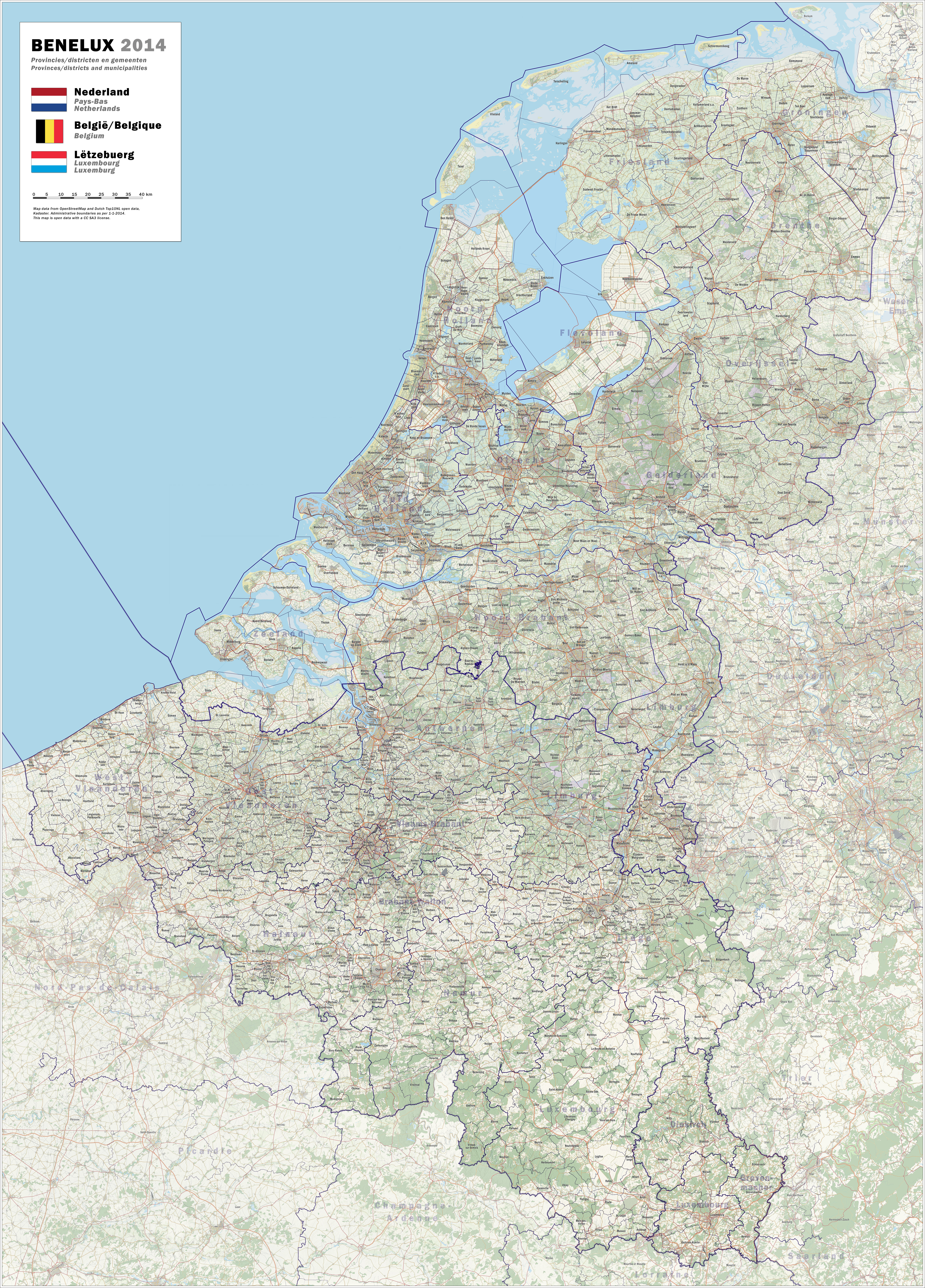 Map of the Benelux showing all municipalities, compiled from Open Geo data: - Terrain and roads from the Open Street Map (OSM), Sept. 2013 - Terrain Netherlands from Dutch BRT (Top10NL) by Kadaster, CC BY, July 2013. Compiled by Jan-Willem van Aalst using QGIS and Photoshop. Many thanks to Frank Steggink for supplying the OSM data in PostGIS format.